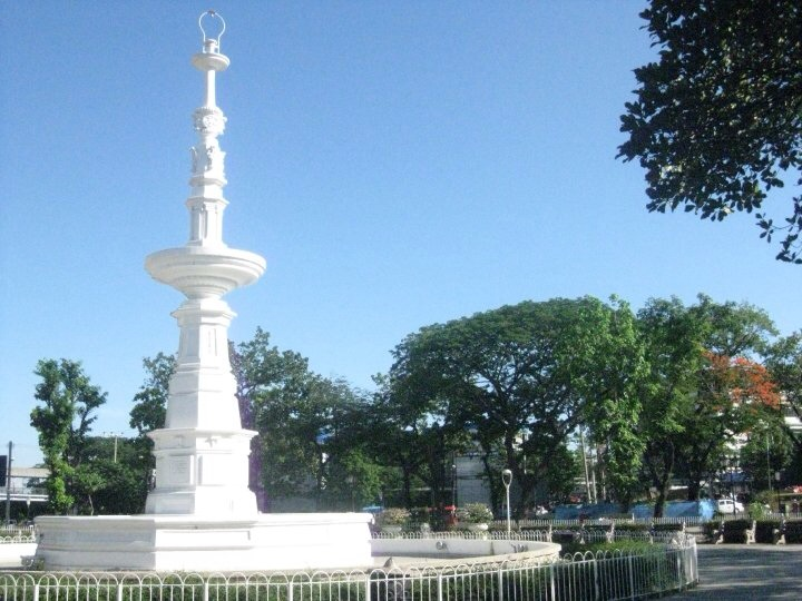 The fountain at Fuente Osmeña, Downtown Cebu City, Philippines